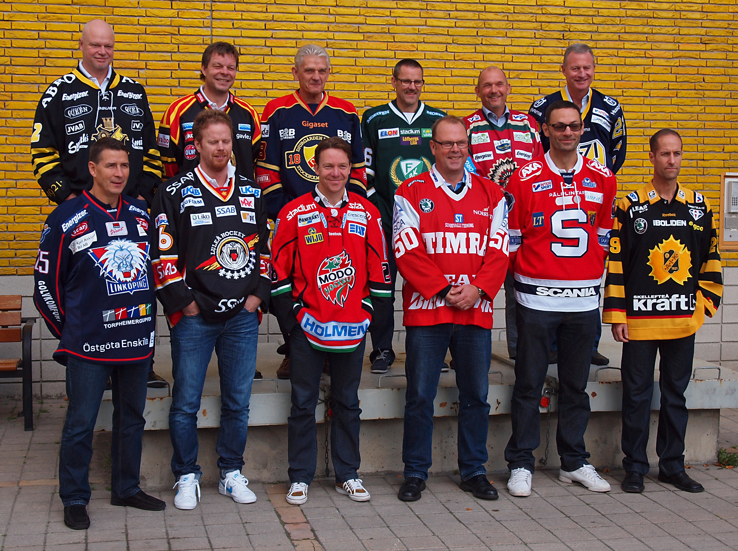 Coaches of the Swedish Elitserien league. Top row from left: Roger Melin - AIK, Niklas Czarnecki - Brynäs, Hardy Nilsson - Djurgården, Tommy Samuelsson - Färjestad, Kent Johansson - Frölunda, Jan Karlsson - HV71. Bottom row from left: Hans Särkijärvi - Linköping, Jonas Rönnqvist - Luleå, Charles Berglund - Modo, Per-Erik Johnsson - Timrå, Peter Popovic - Södertälje, Anders Forsberg - Skellefteå.